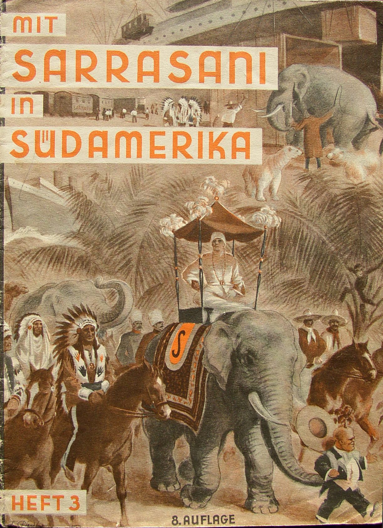 Nr. 3 was distributed as part of the jubilee edition on occasion of the 30th anniversary of the circus in 1932.